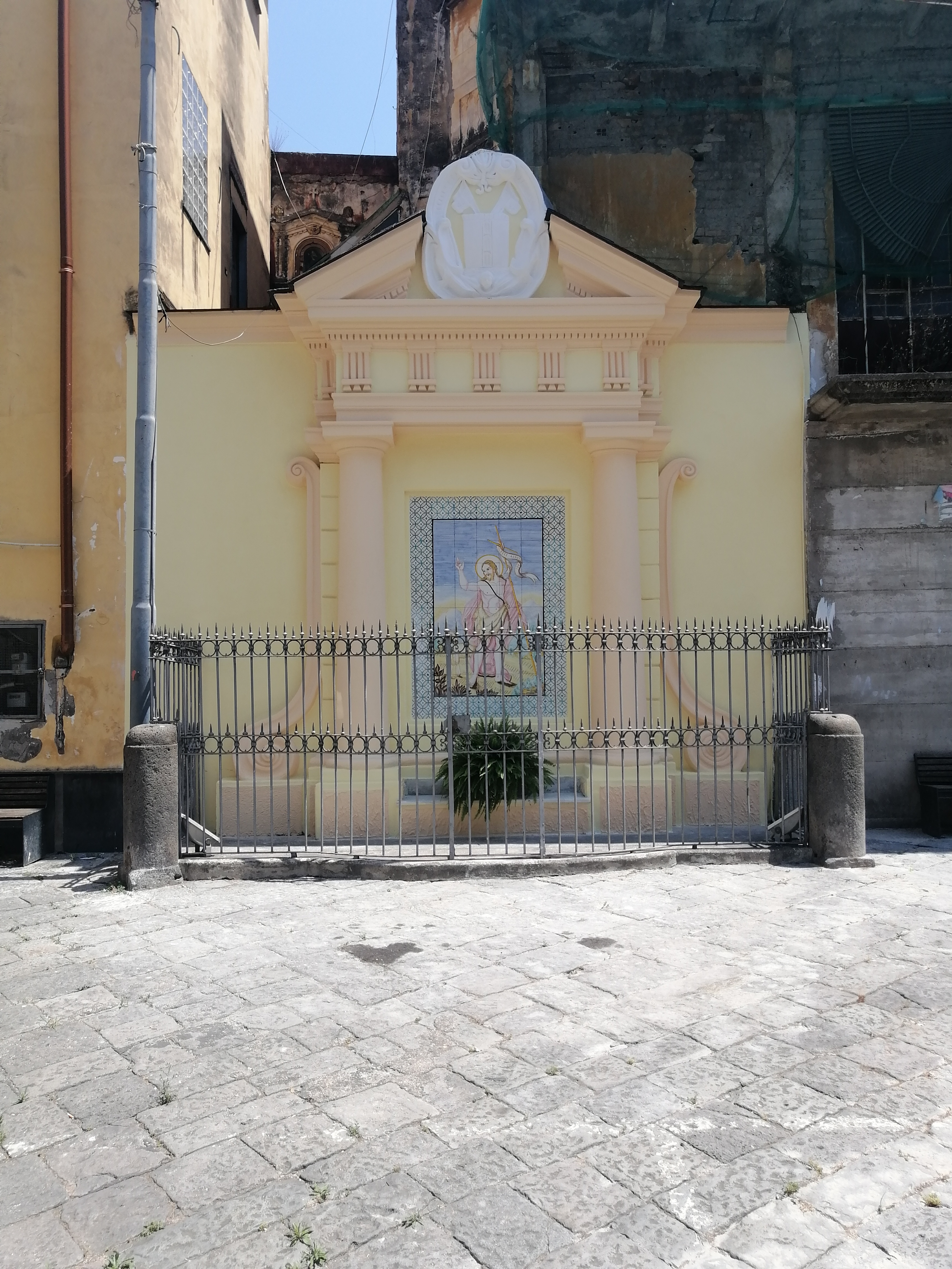 Reproduction of the monumental shrine of San Giovanni Battista located in front of the homonymous Collegiate Church-Angri (Sa).